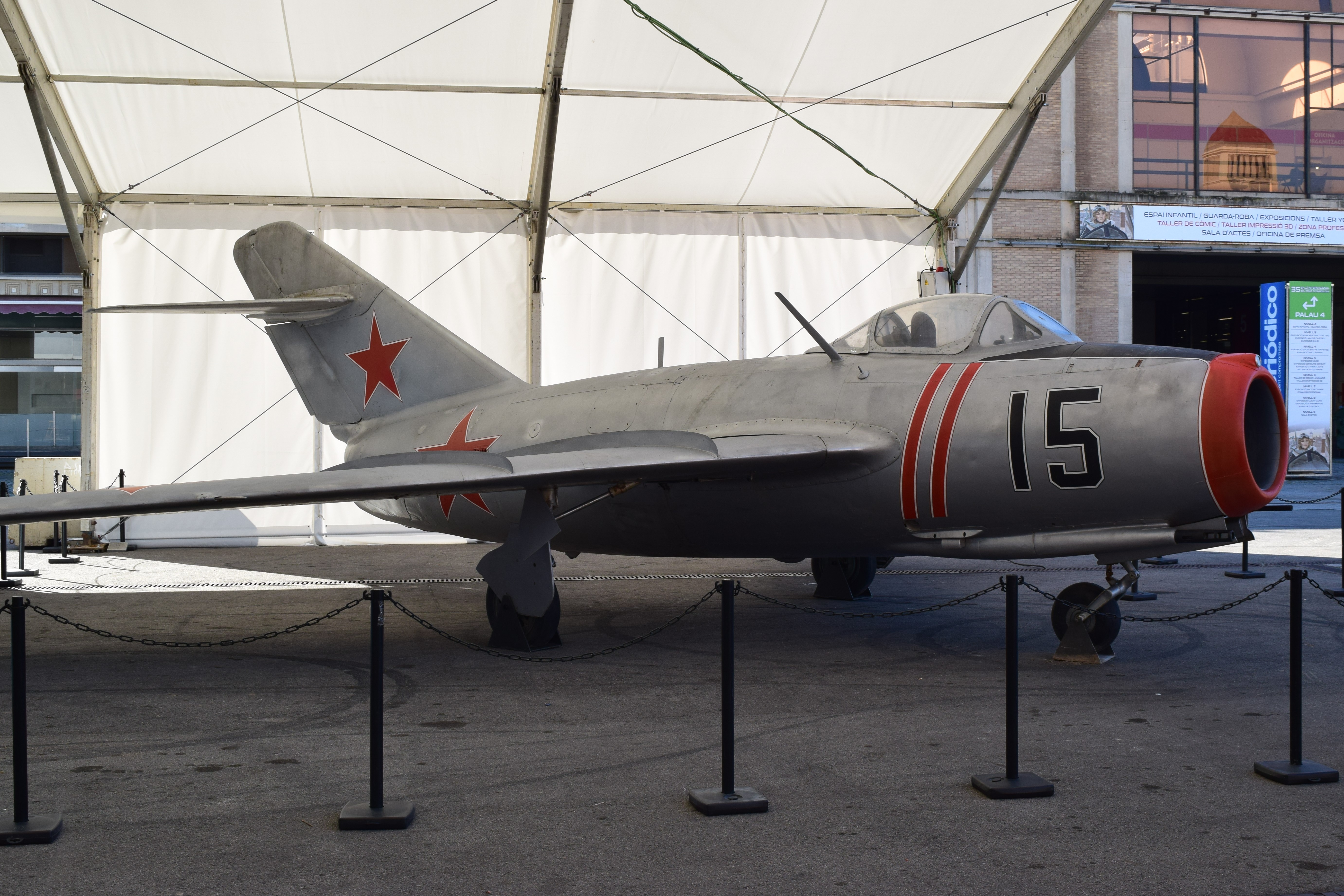 Mikoyan-Gurevich MiG-15. Exhibition "Comics in flight". Barcelona International Comic Fair 2017. Thuersday 30 March 2017.